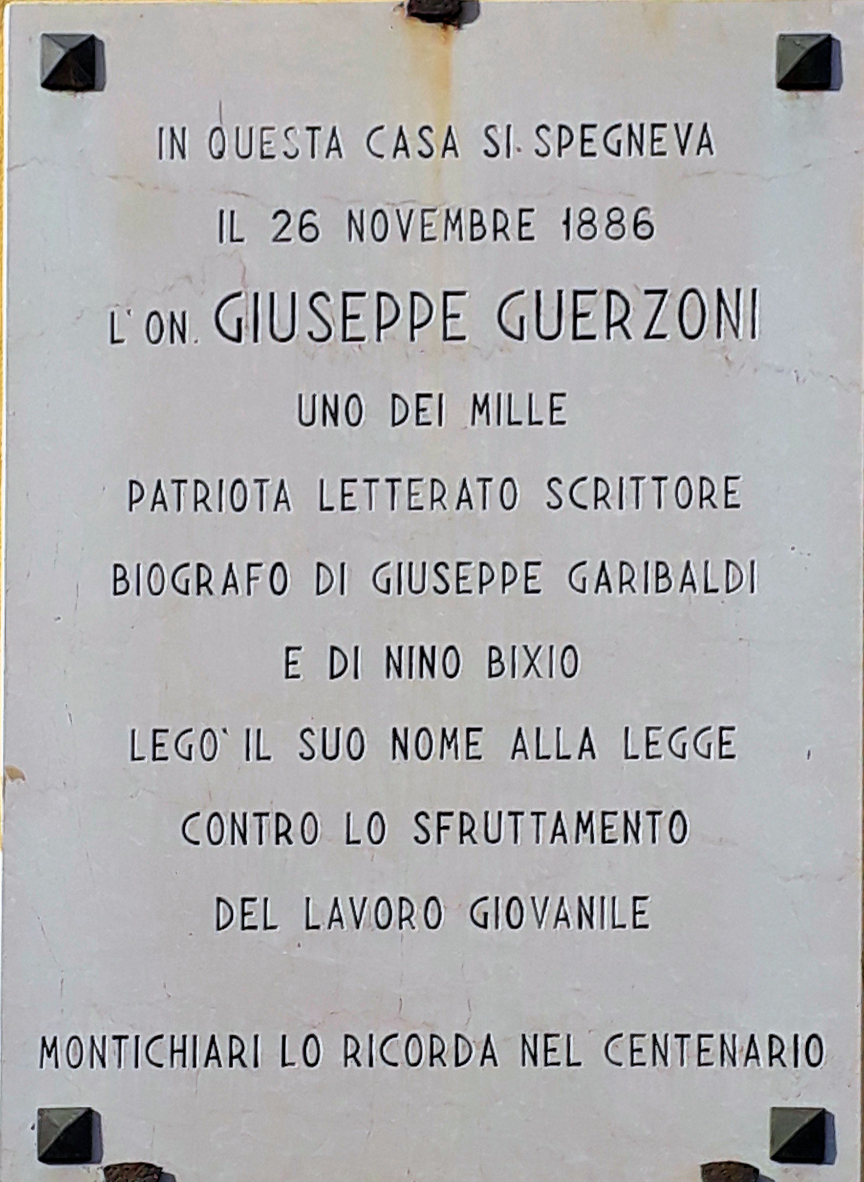 Montichiari, memorial plaque on the house of Giuseppe Guerzoni.